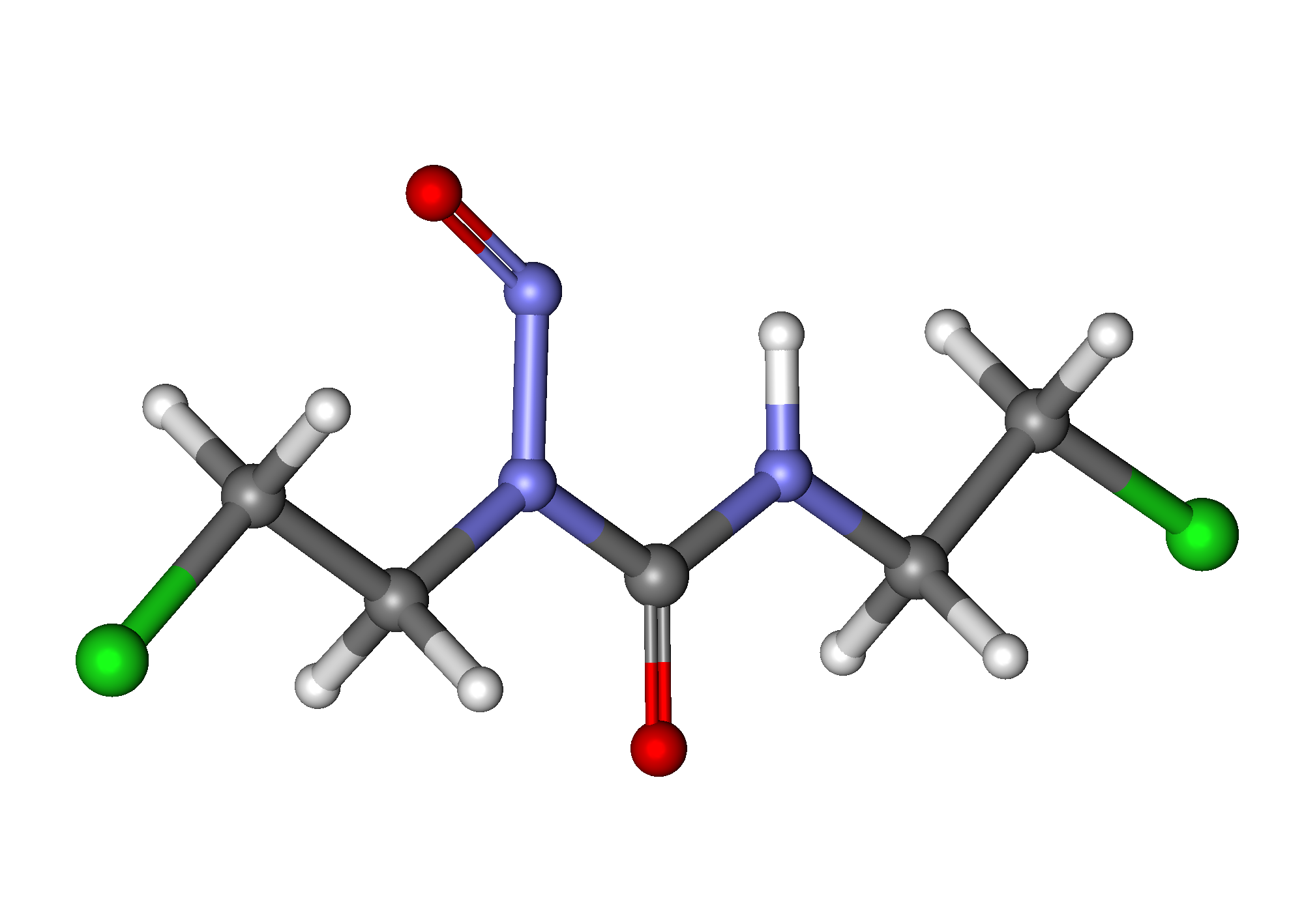 Ball-and-stick model of carmustine molecule. The structure is taken from ChemSpider. ID 2480